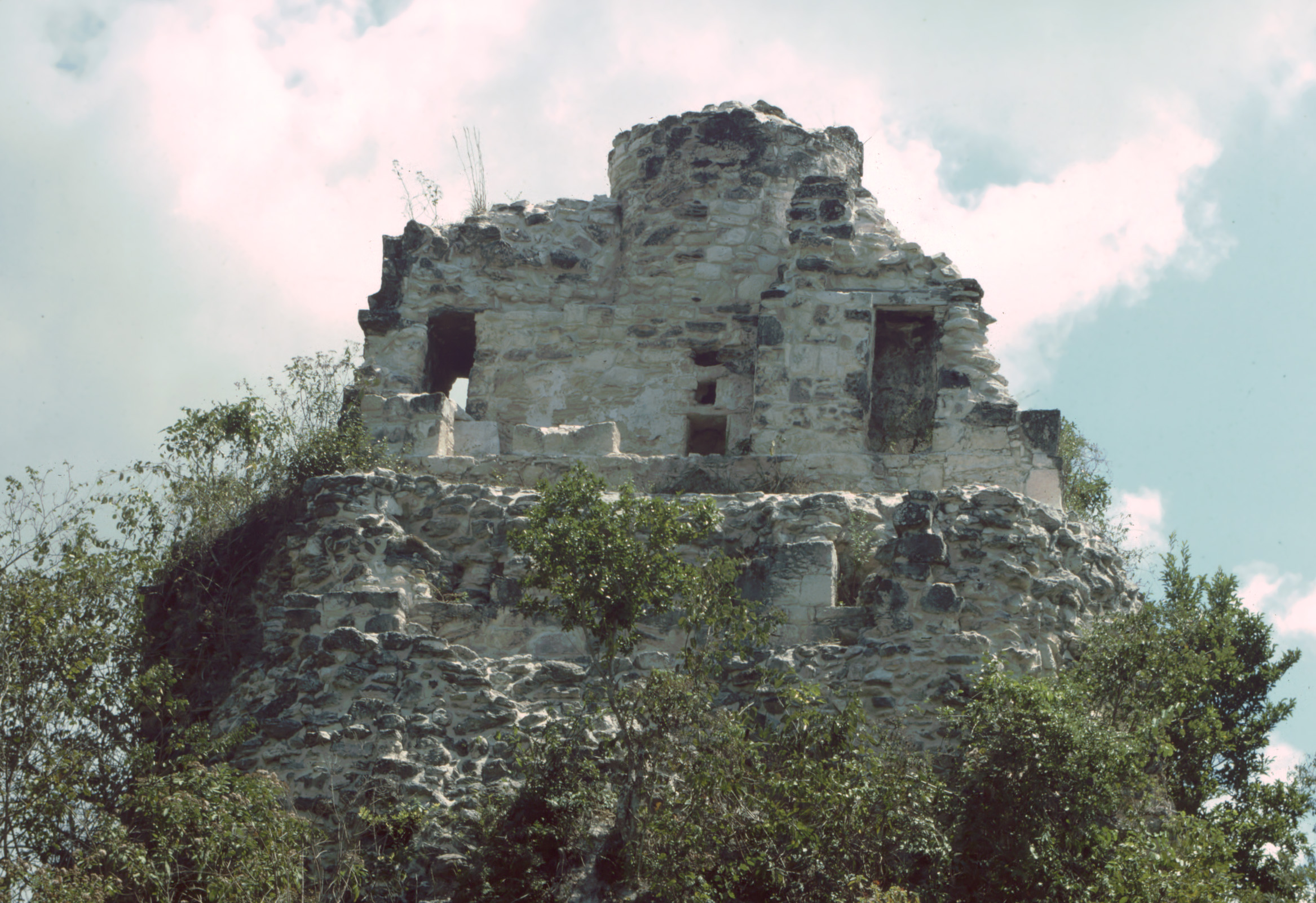 Muyil, Quintana Roo, Mexico: Remains of construction at the top of the pyramid